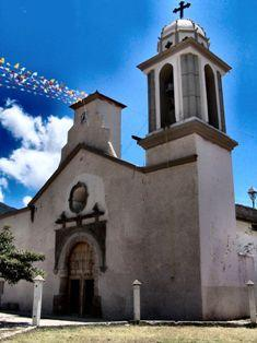 Parish church of St. John the Baptist in the town of Acultzingo, Mexico